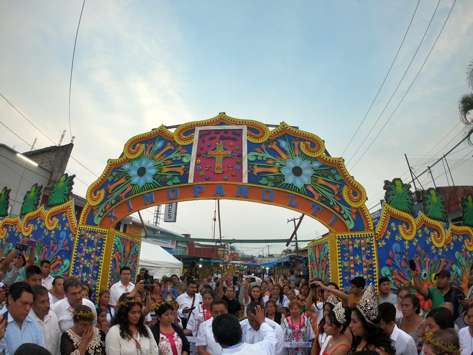 traditional fair of amatlán